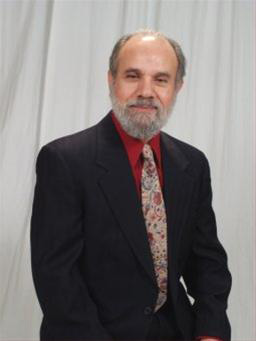 Iraj Bashiri photo